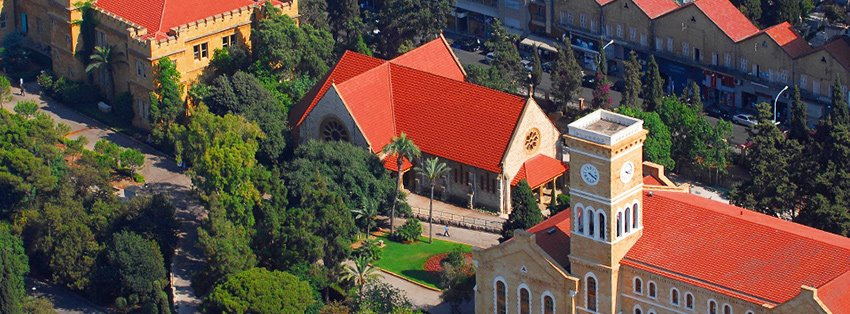 Aerial view of the AUB Campus